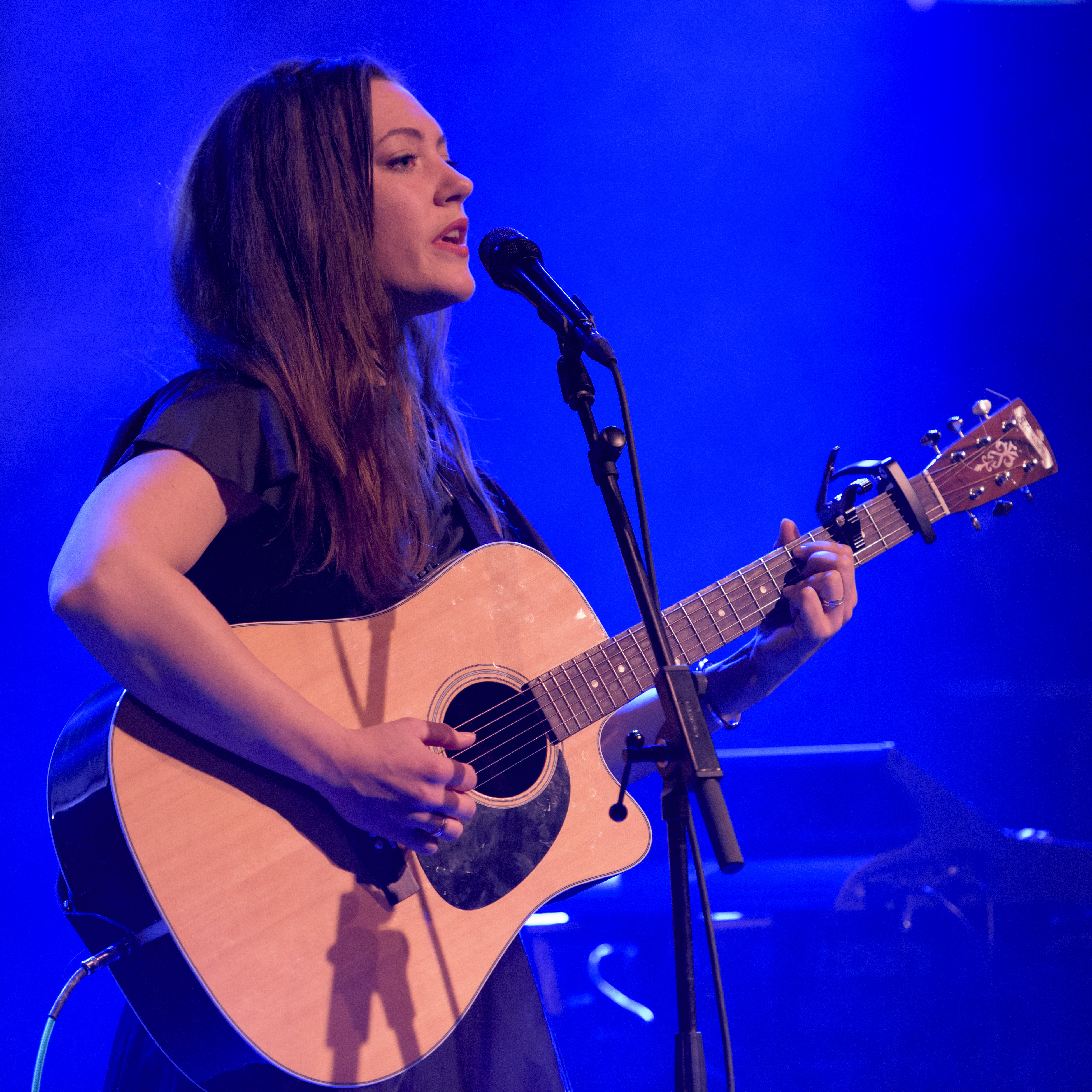 Celine Cairo performs on stage in Hilversum, Netherlands, 30 November 2017.